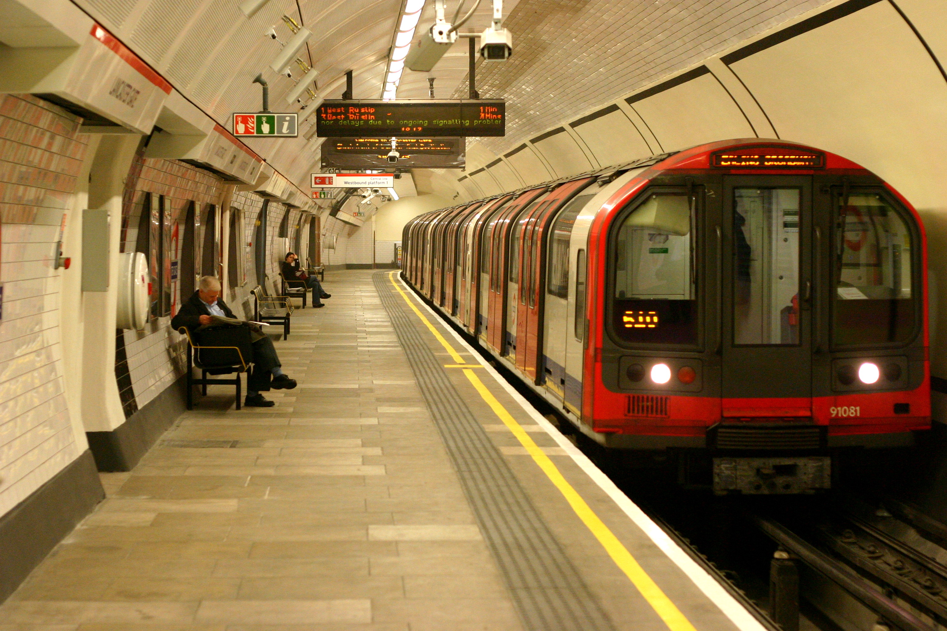 1992 stock Tube train at Lancaster Gate station, London Camera: Canon EOS Digital Rebel License on Flickr (2011-02-13): CC-BY-SA-2.0 Flickr tags: Lancaster Gate, Lancaster Gate Station, London Underground, The Tube, Underground, Tube, 1992 Stock, platform